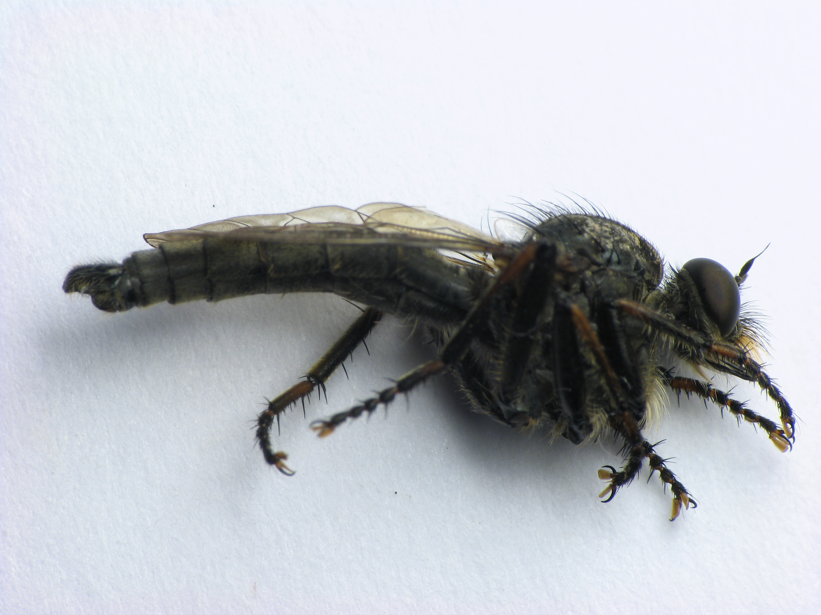 Robber fly, Machimus notatus. Schoodic Point, Acadia National Park, Hancock County, Maine, USA.